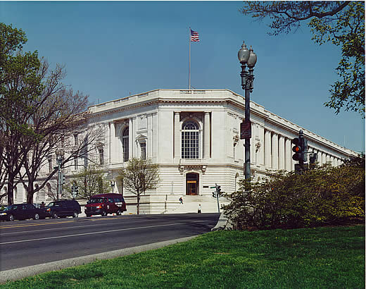 Russell Senate Office Building. This photograph, taken from southwest of the building, shows the main entrance along Constitution Avenue, N.E.